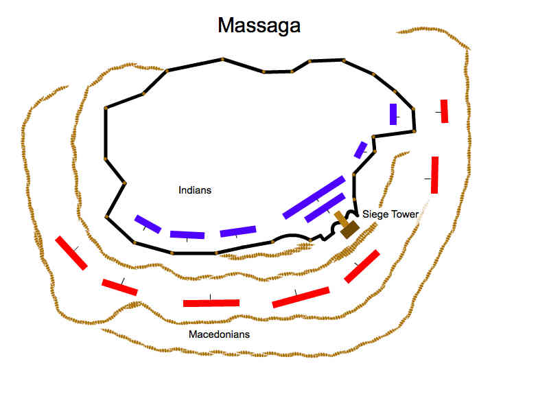 Cophen Campaign